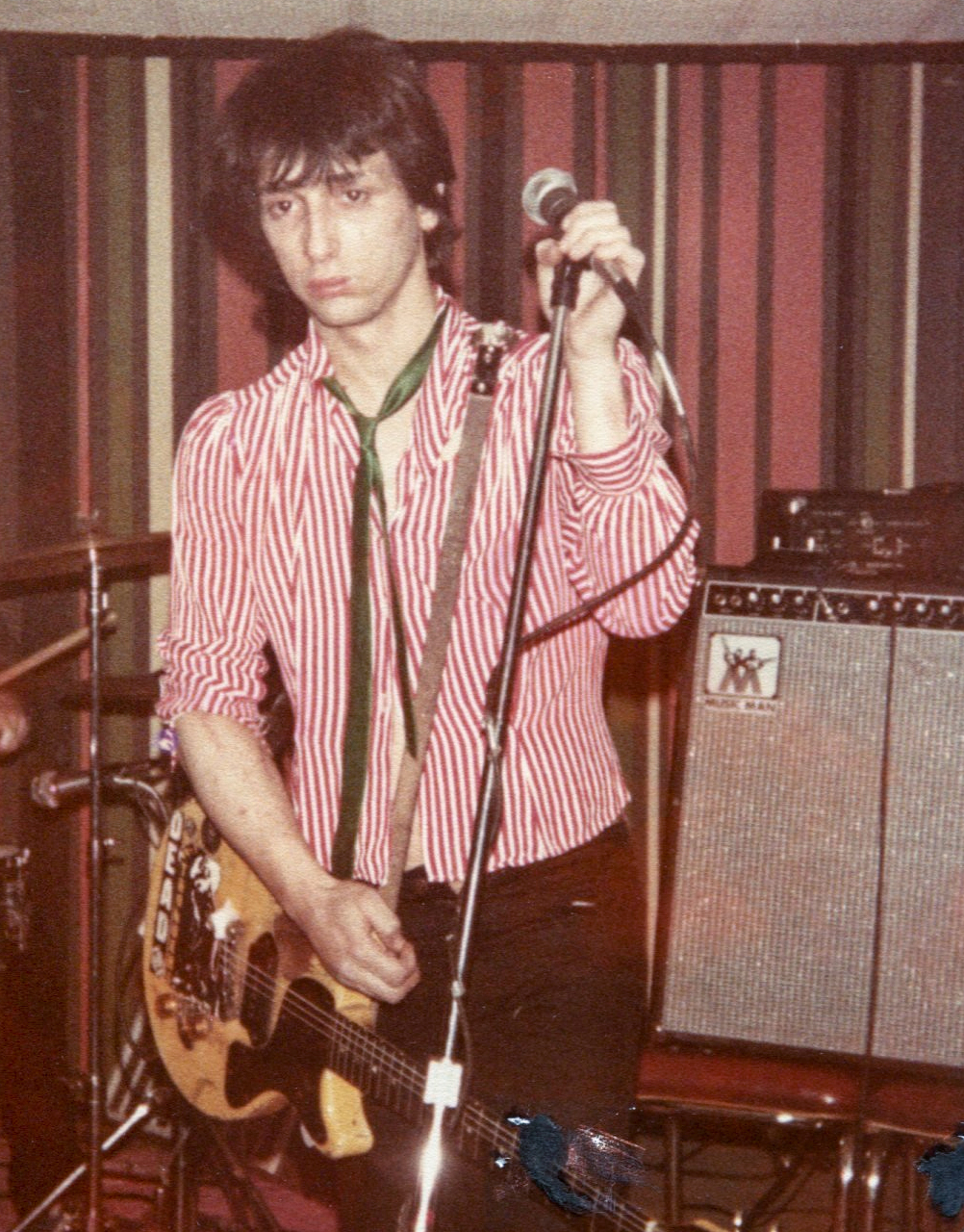 ANN ARBOR, Mich. -- 1979. Johnny Thunders. Thunders was performing at the VFW Post in Ann Arbor, Michigan. At that time he was collaborating with Wayne Kramer of the MC5. The two lead guitarists called their band Gang War. The image is a scan of a surviving print - there are scuff marks on the bottom right that may be cropped out for reproduction.